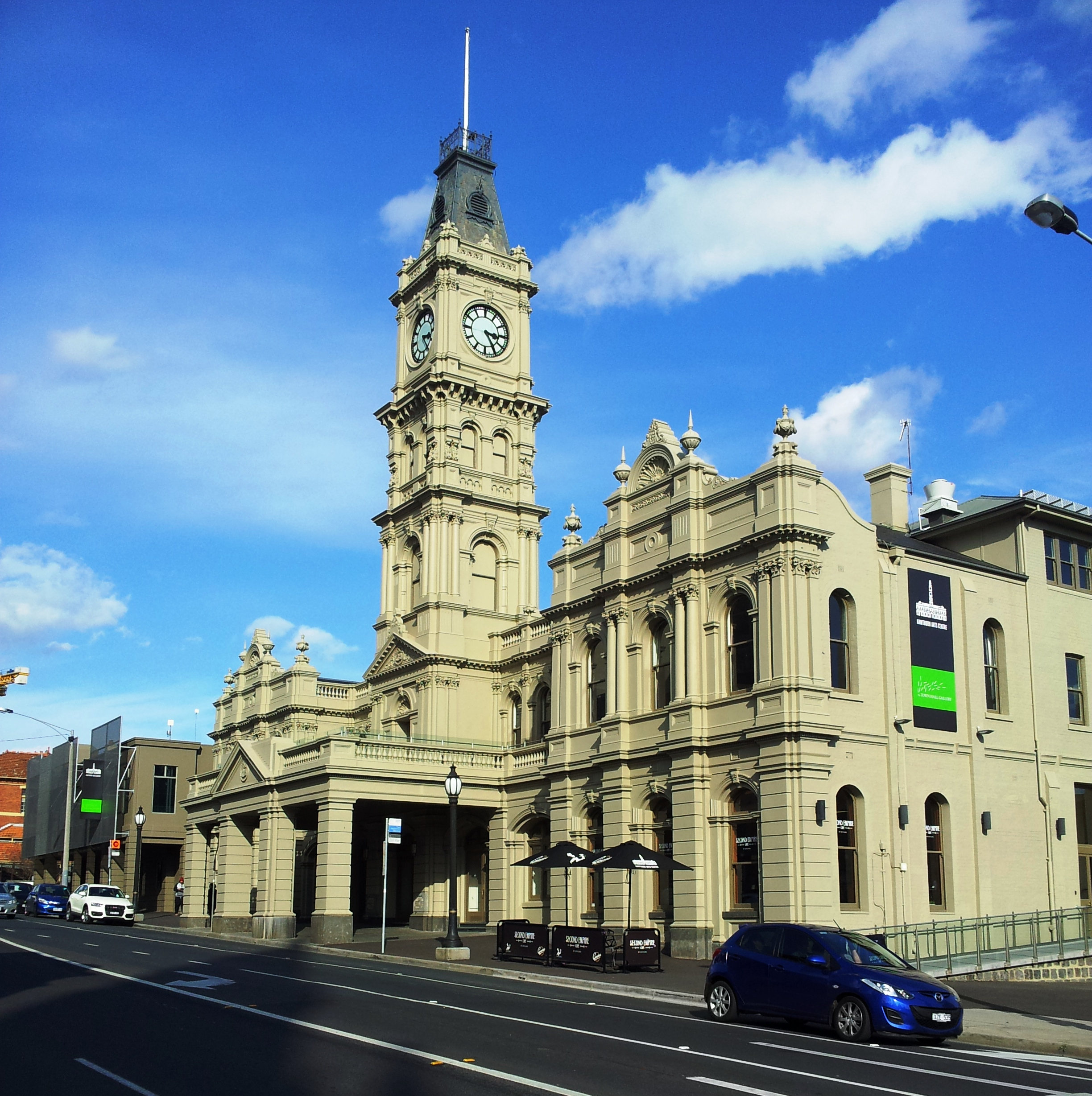 Hawthorn Town Hall, Burwood Road, Hawthorn, 1888, architect John Beswicke